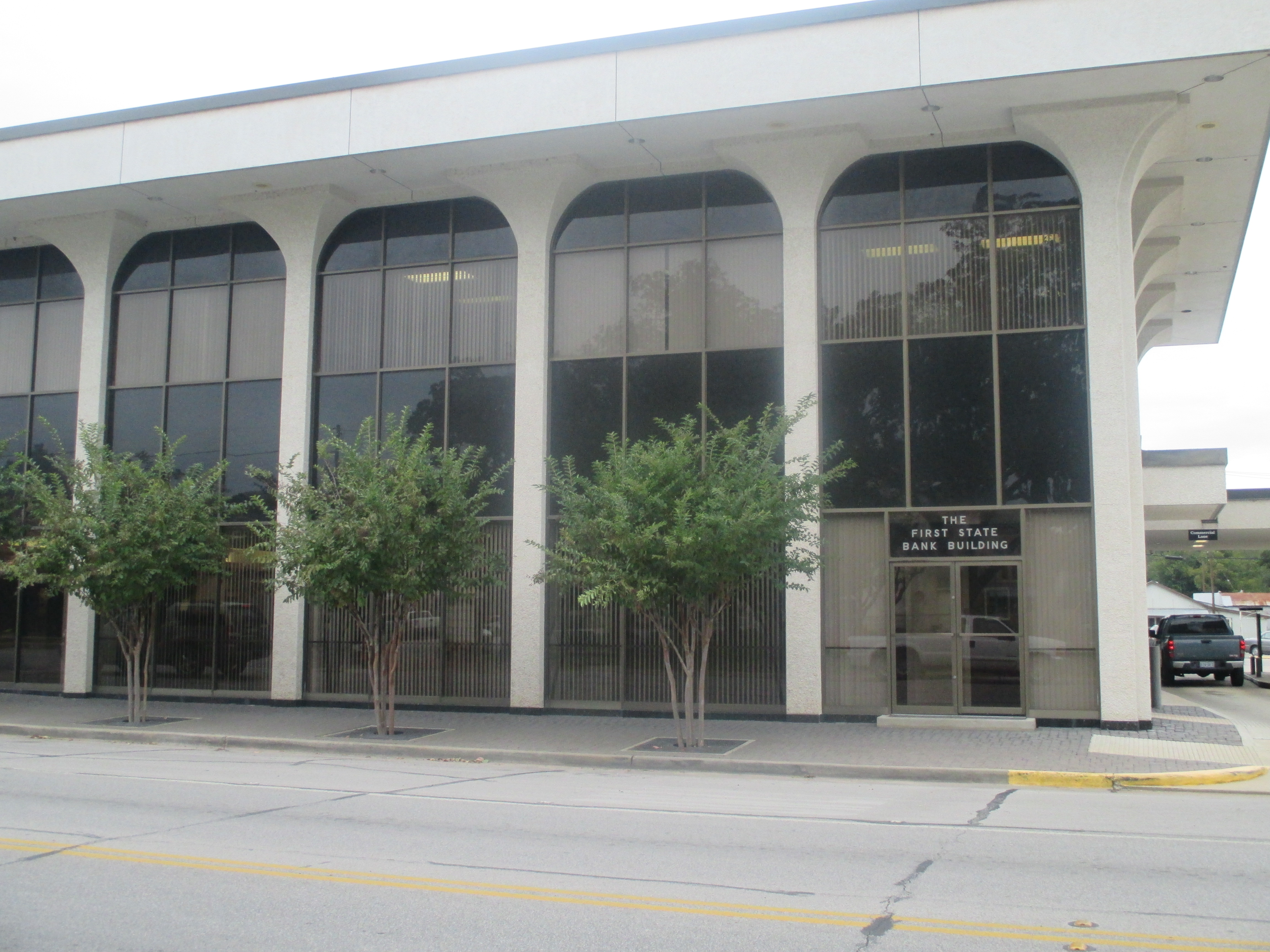 I took photo with Canon camera of First State Bank Building in Columbus, TX.